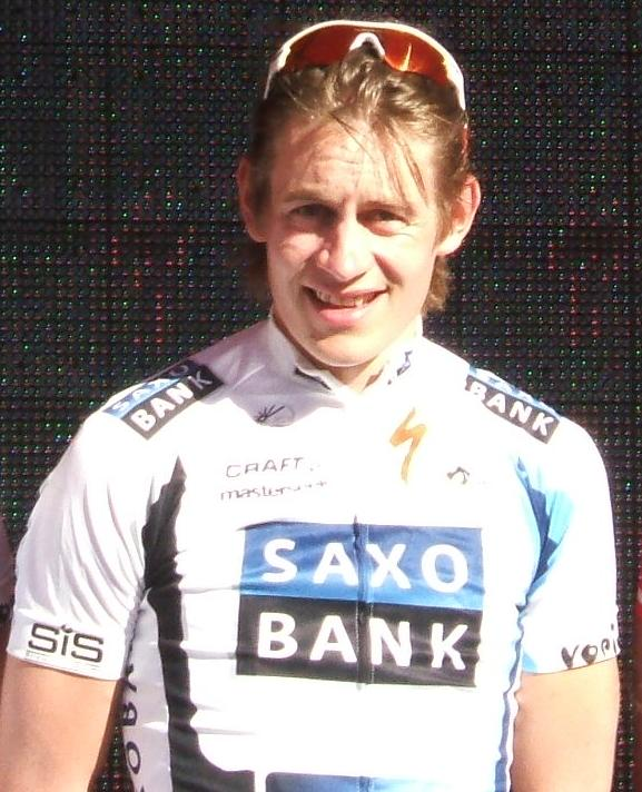 Named cyclist at the en:2009 Tour Down Under team presentation